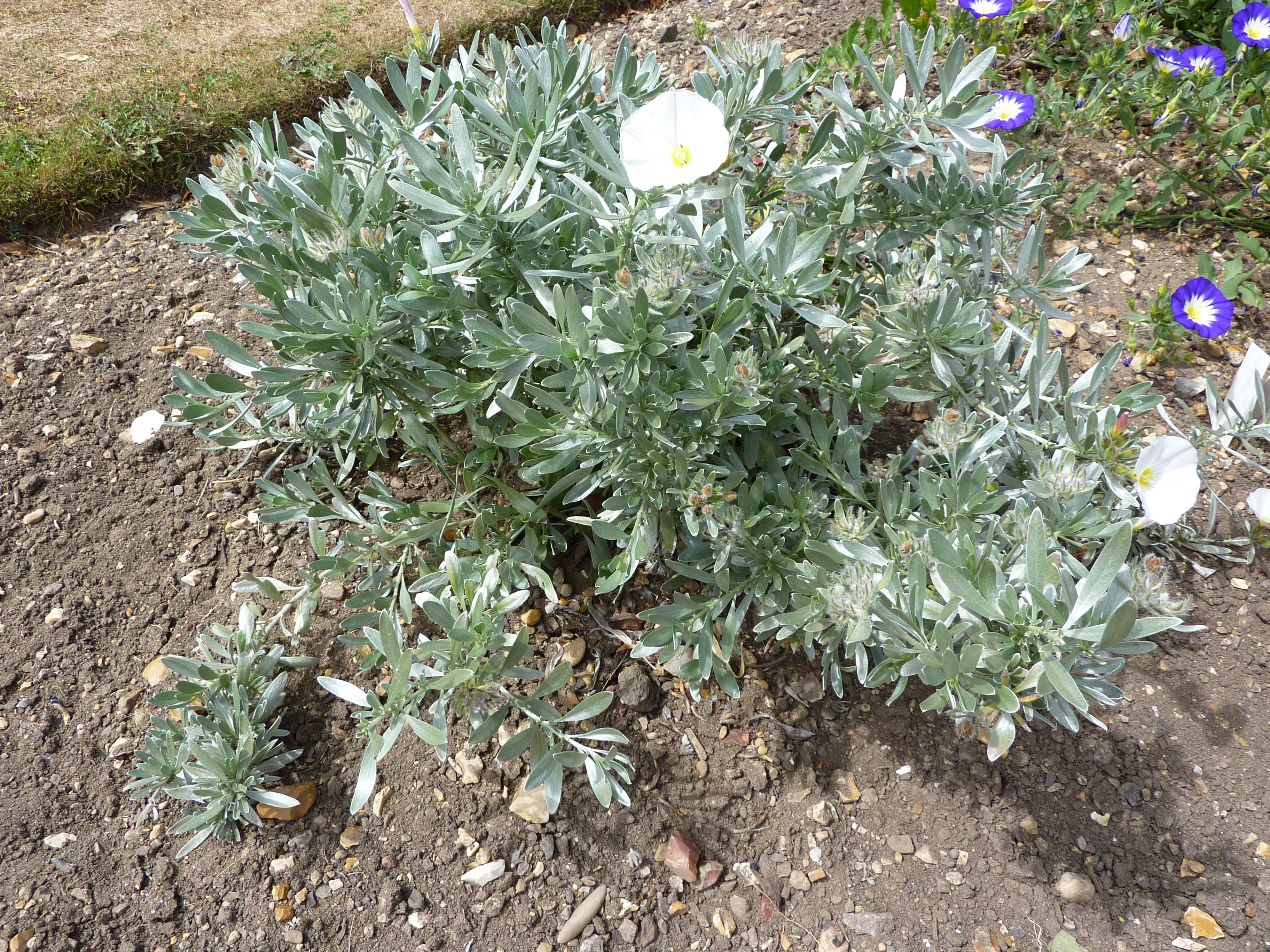 Taken in the Cambridge University Botanic Garden